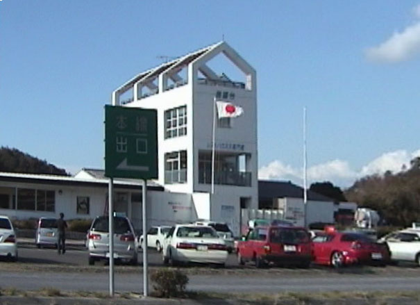 Corrected to remove disturbing "tilt" from image by Kelly Martin. Derived from original, Image:Drivein 2.jpg under the terms of the GFDL.